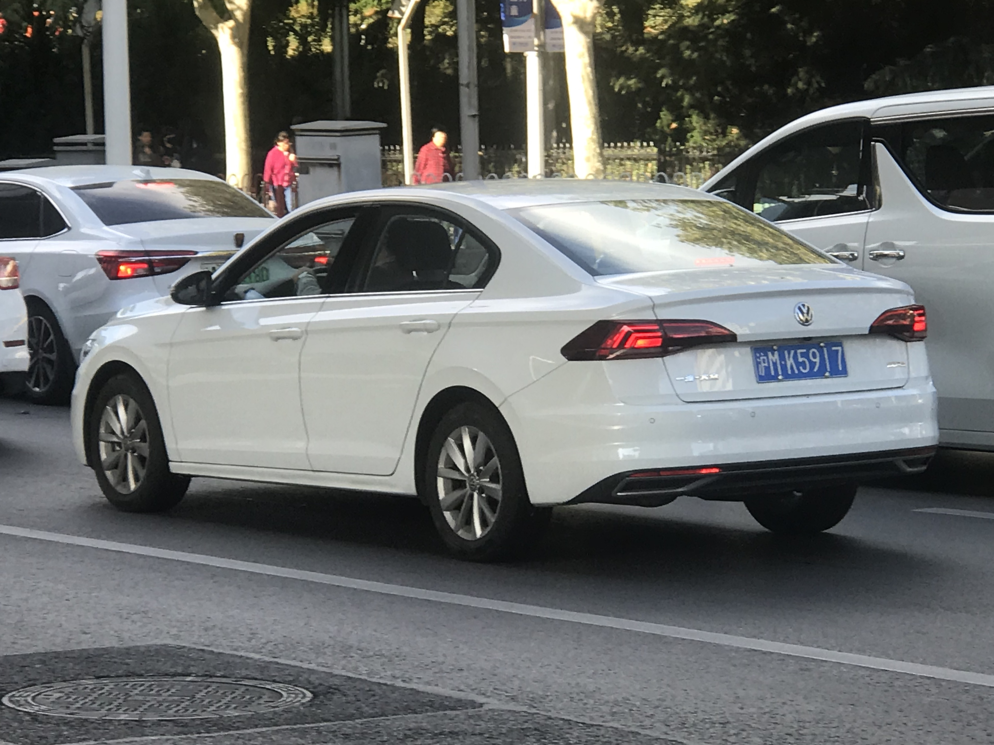 Volkswagen Bora MK4 in China rear